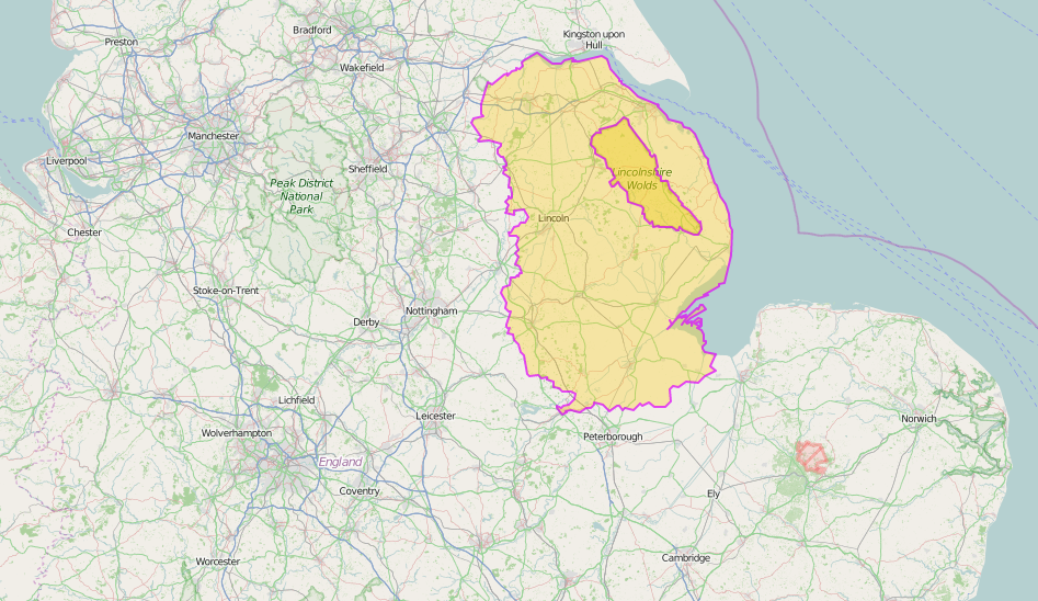 Location of the Lincolnshire Wolds within Lincolnshire. Created with OSM data using Overpass Turbo